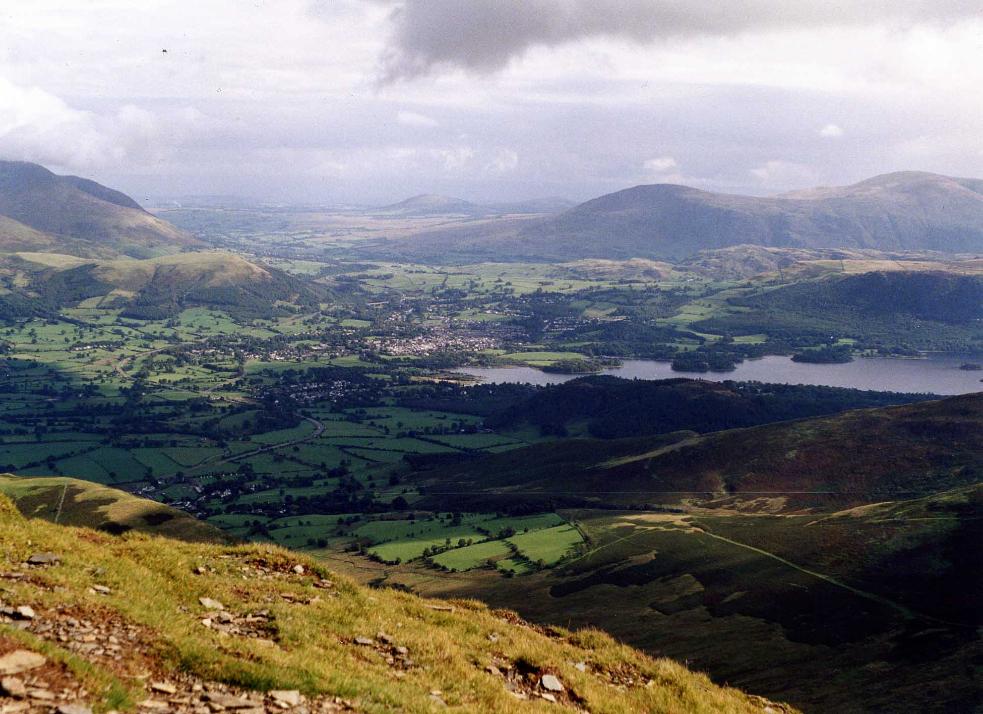 personal photo taken by Mick Knapton